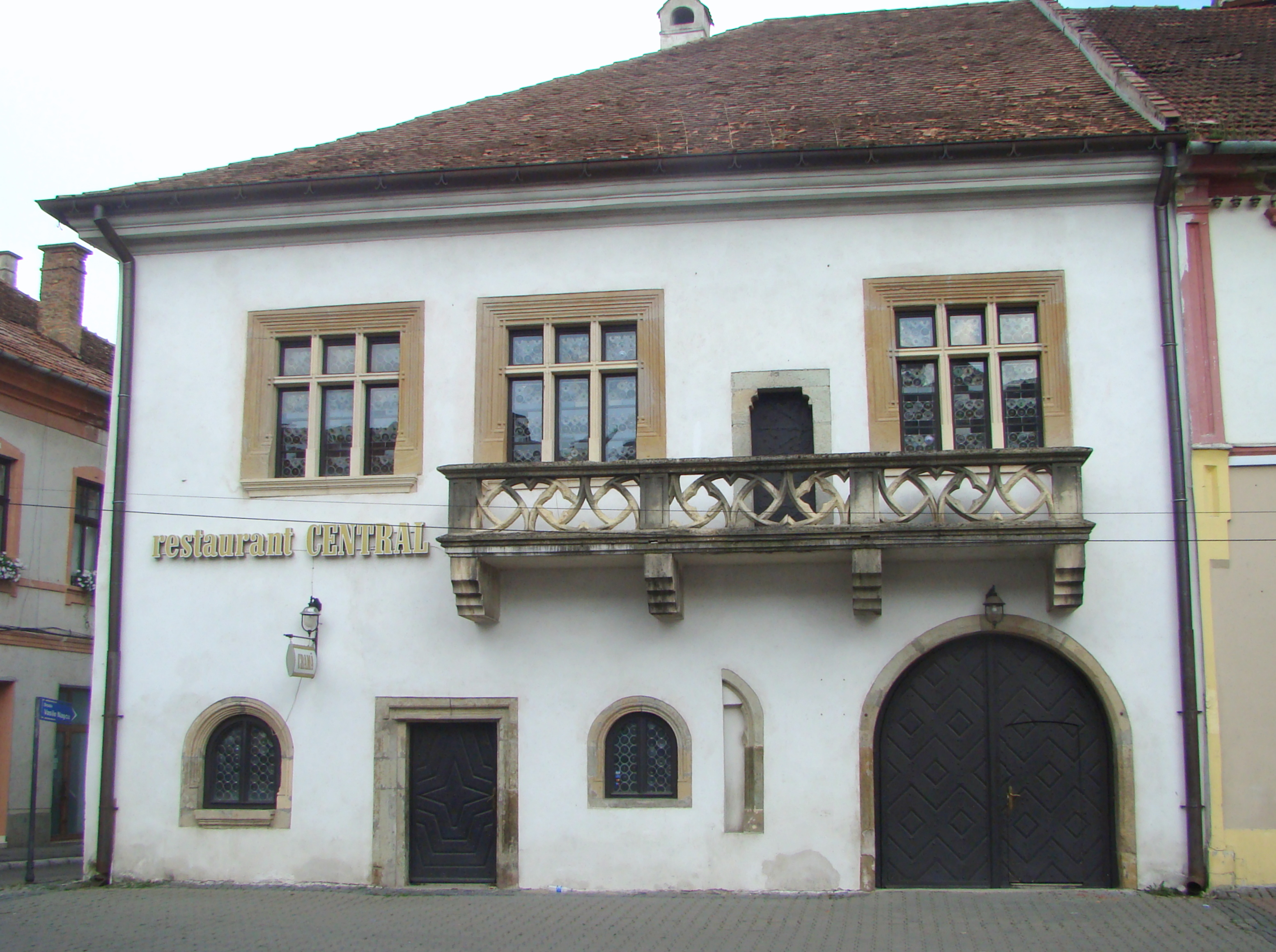 House, historic monument, in Bistrița, Piața Centrală 30